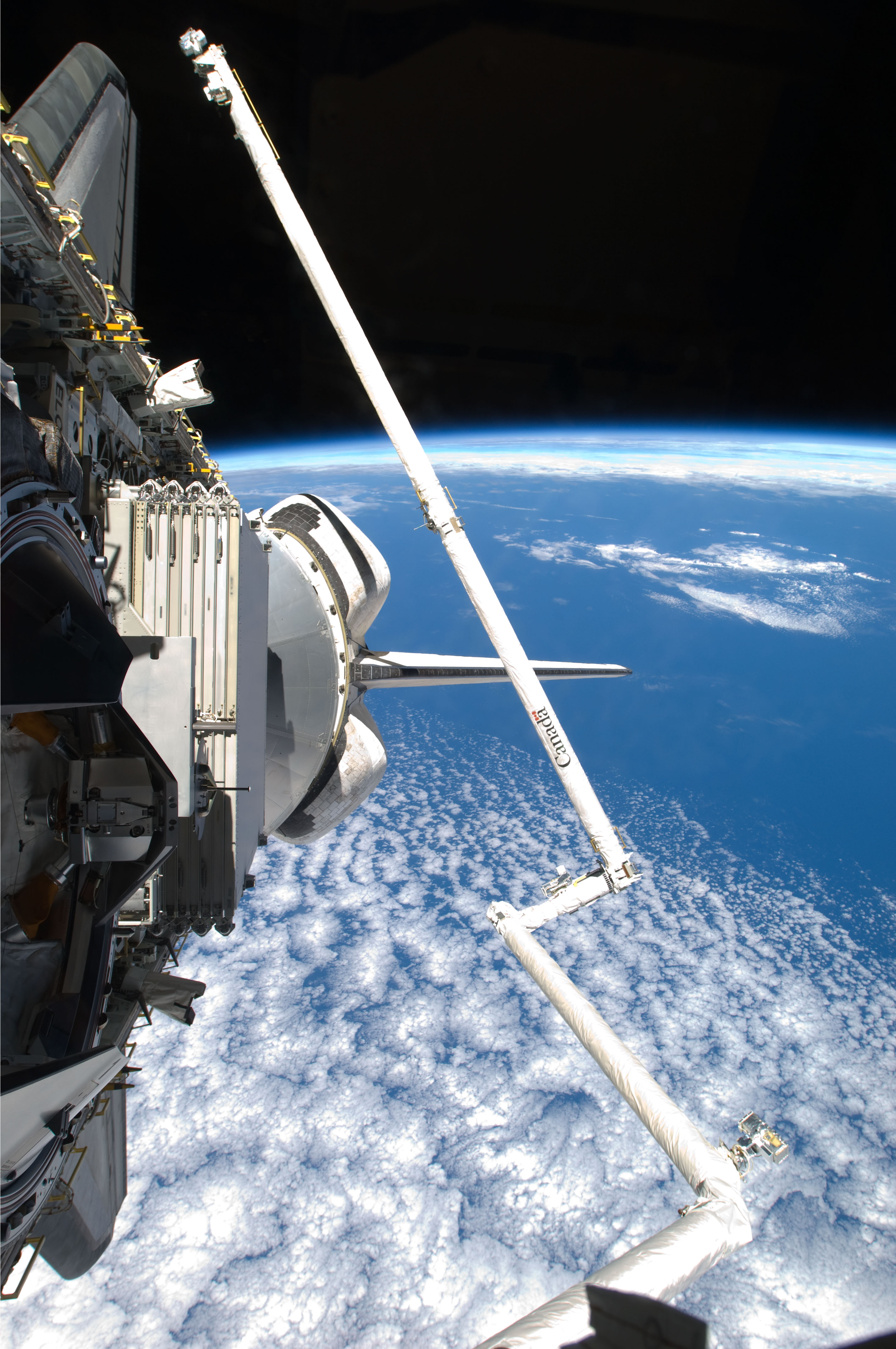 Controlled by the STS-133 astronauts inside Discovery's cabin, the Remote Manipulator System/Orbiter Boom Sensor System (RMS/OBSS) equipped with special cameras, begins to conduct thorough inspections of the shuttle's thermal tile system on flight day 2.